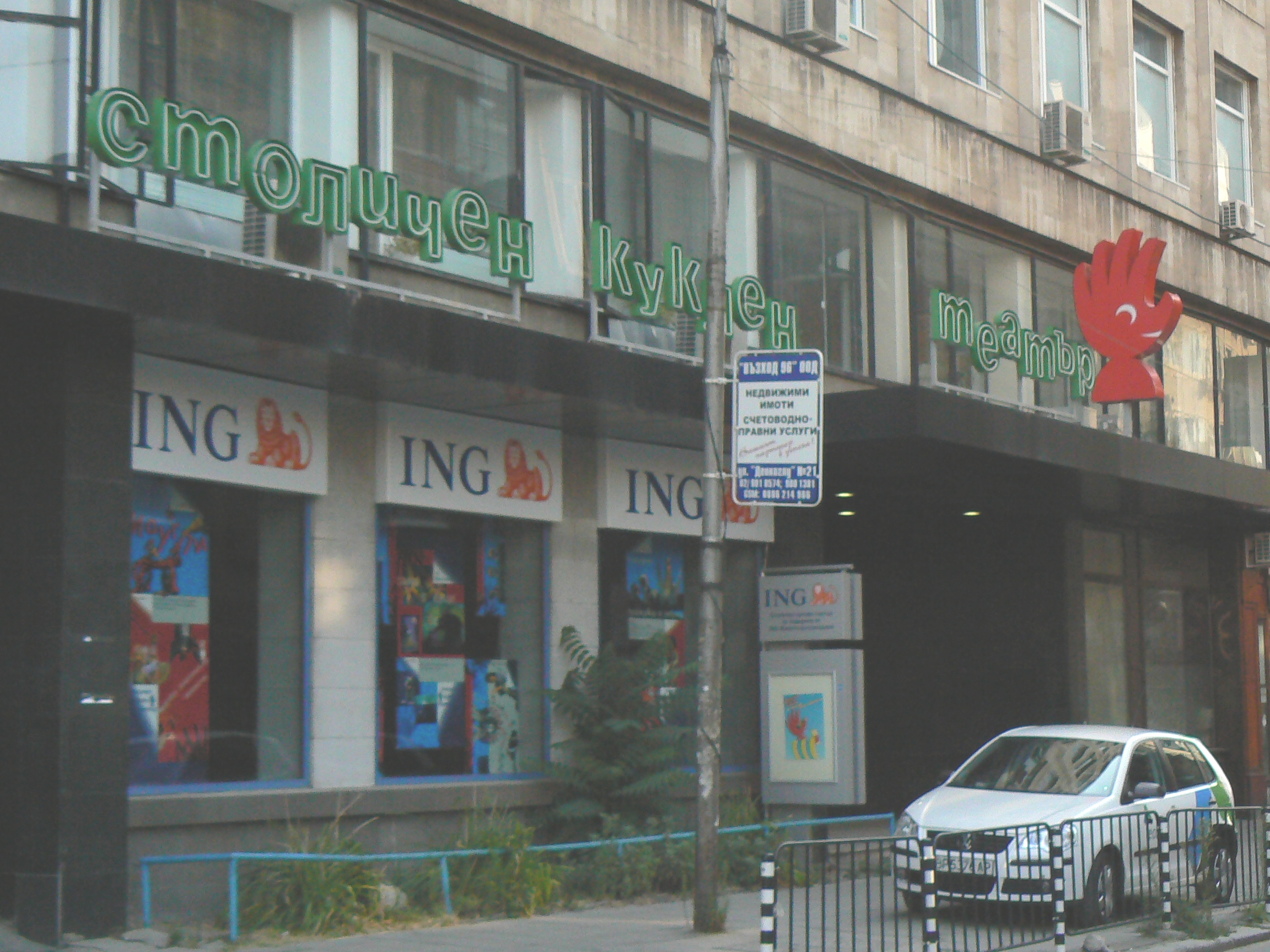 Sofia puppet theatre, Gurko Street, Sofia, Bulgaria